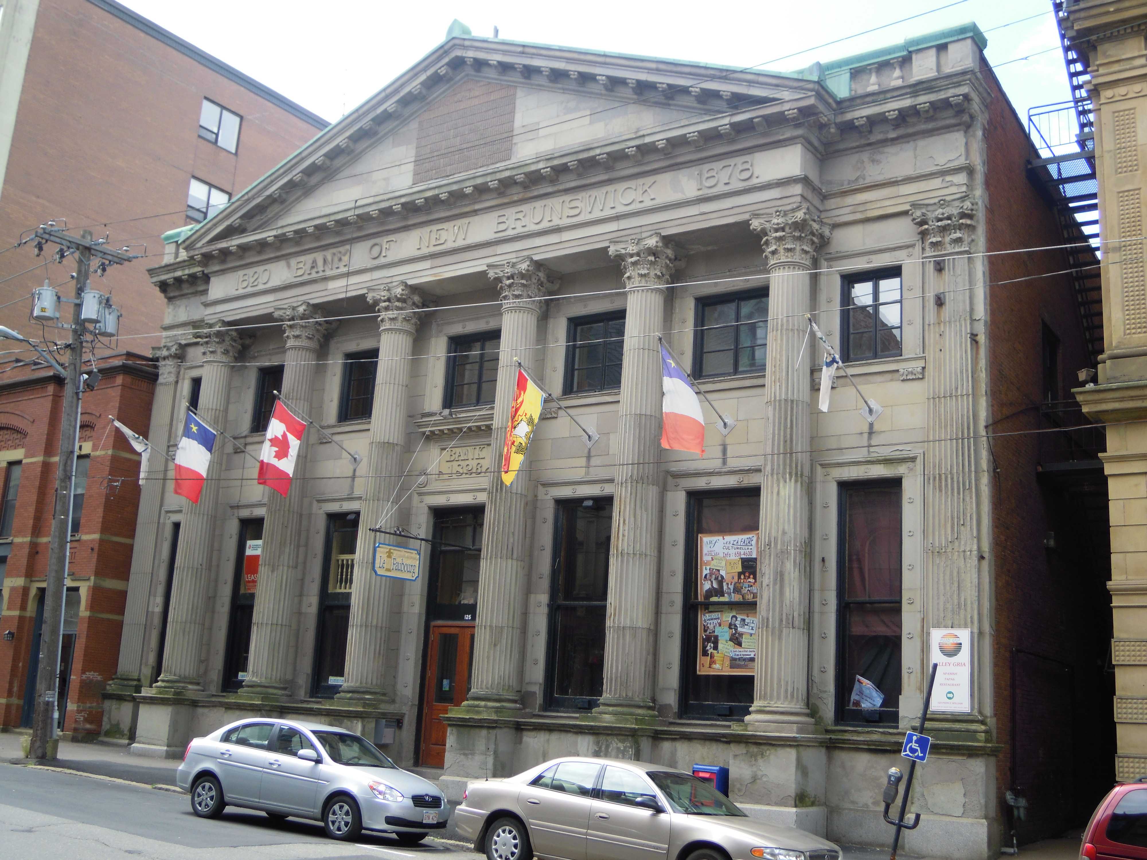 Bank of New Brunswick Building, Prince William Street, Saint John, New Brunswick, Canada.